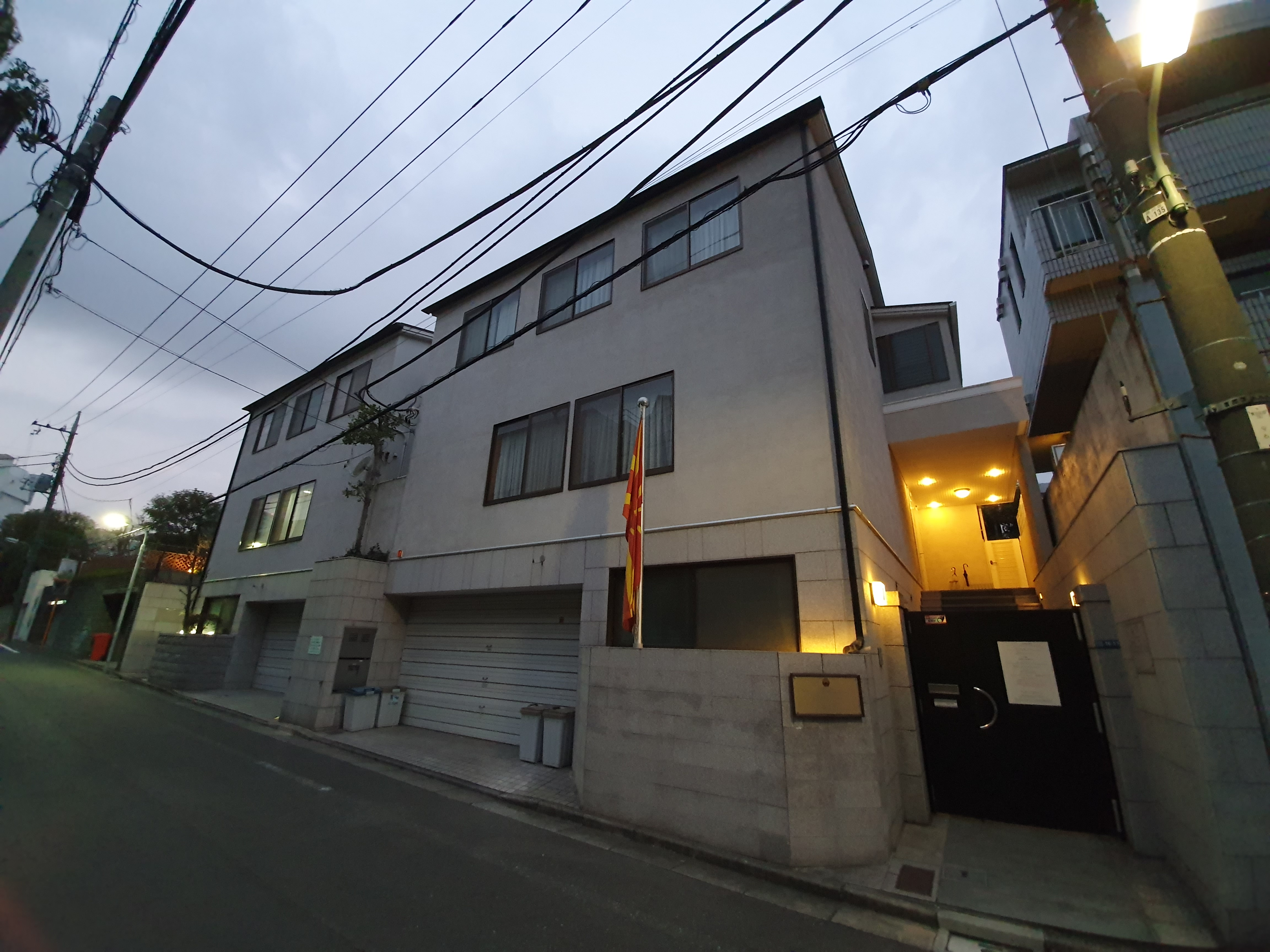 embassy